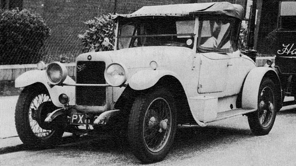 Star Motor Car built in Wolverhampton. A 1926 Star 14/40 two-seater motor car with two-litre ohv four-cylinder engine.